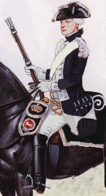 Uniform, modified to match 1790 hanoverian 5th Dragoon Rgt. v. Ramdohr